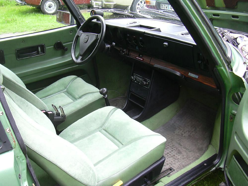 The interior of a SAAB 99 Turbo. Notice the turbo boost gauge on the dashboard, the special steering wheel and pattern of the seats.